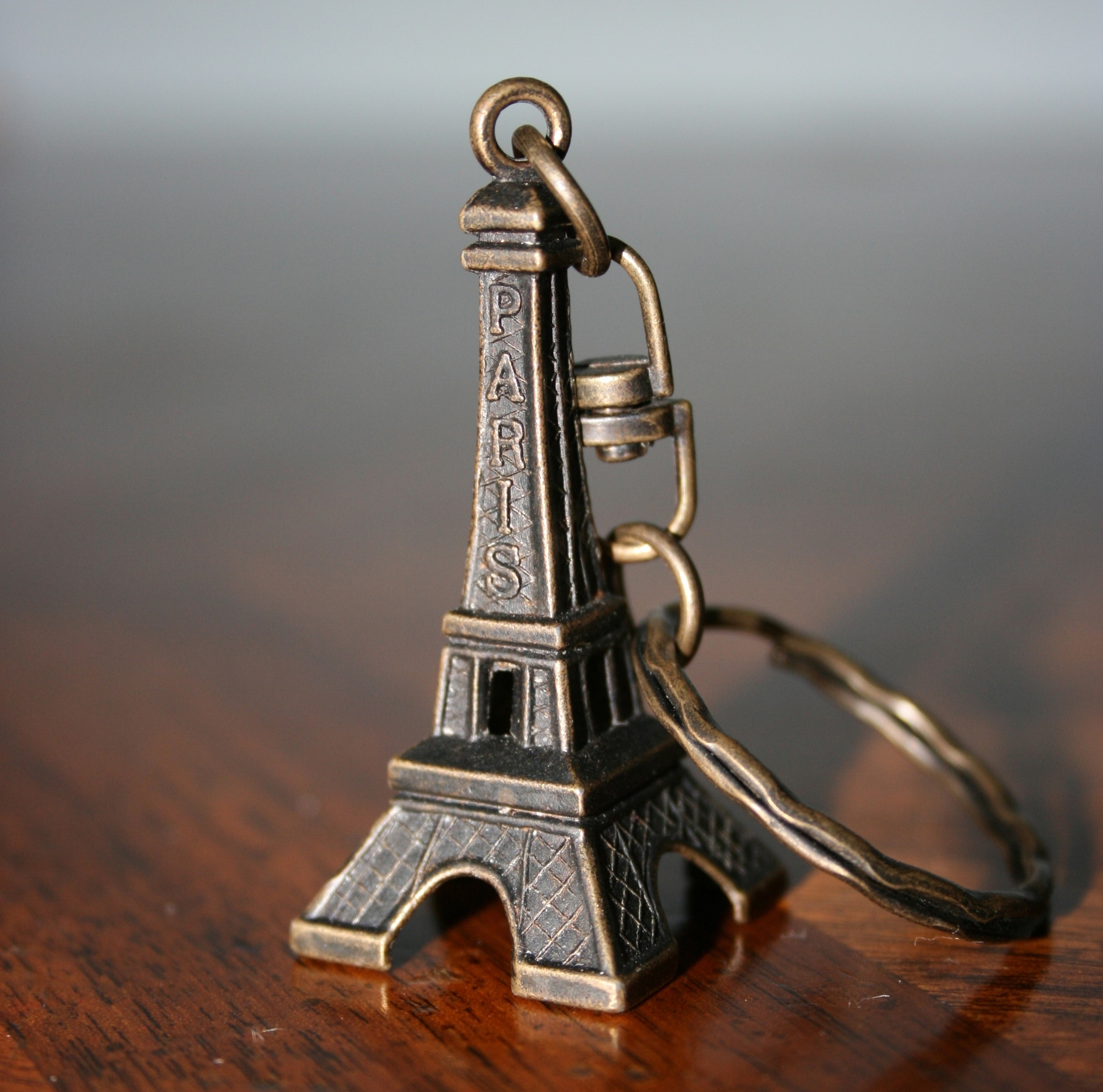 A keychain of the Eiffel Tower.